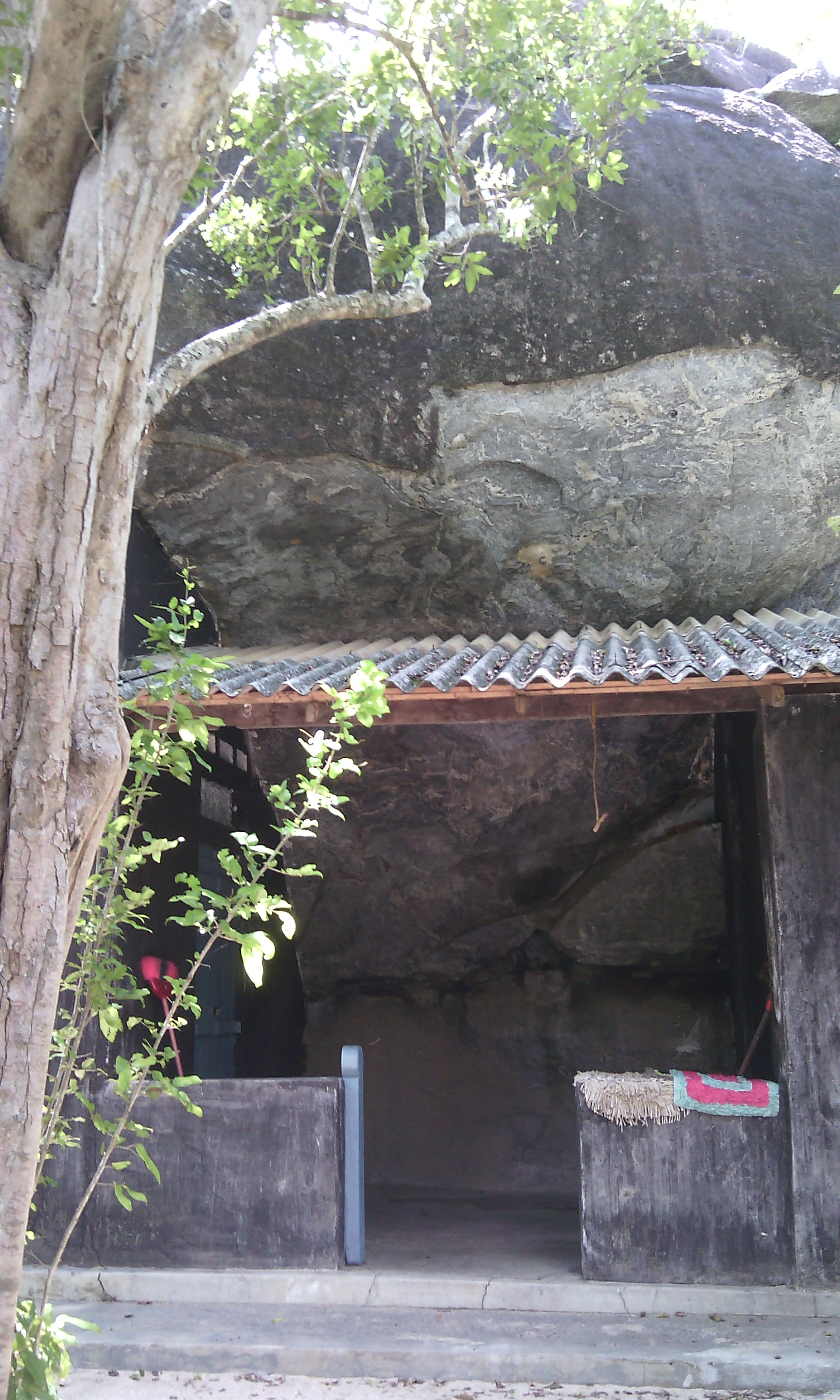 Buddhangala Raja Maha Viharaya